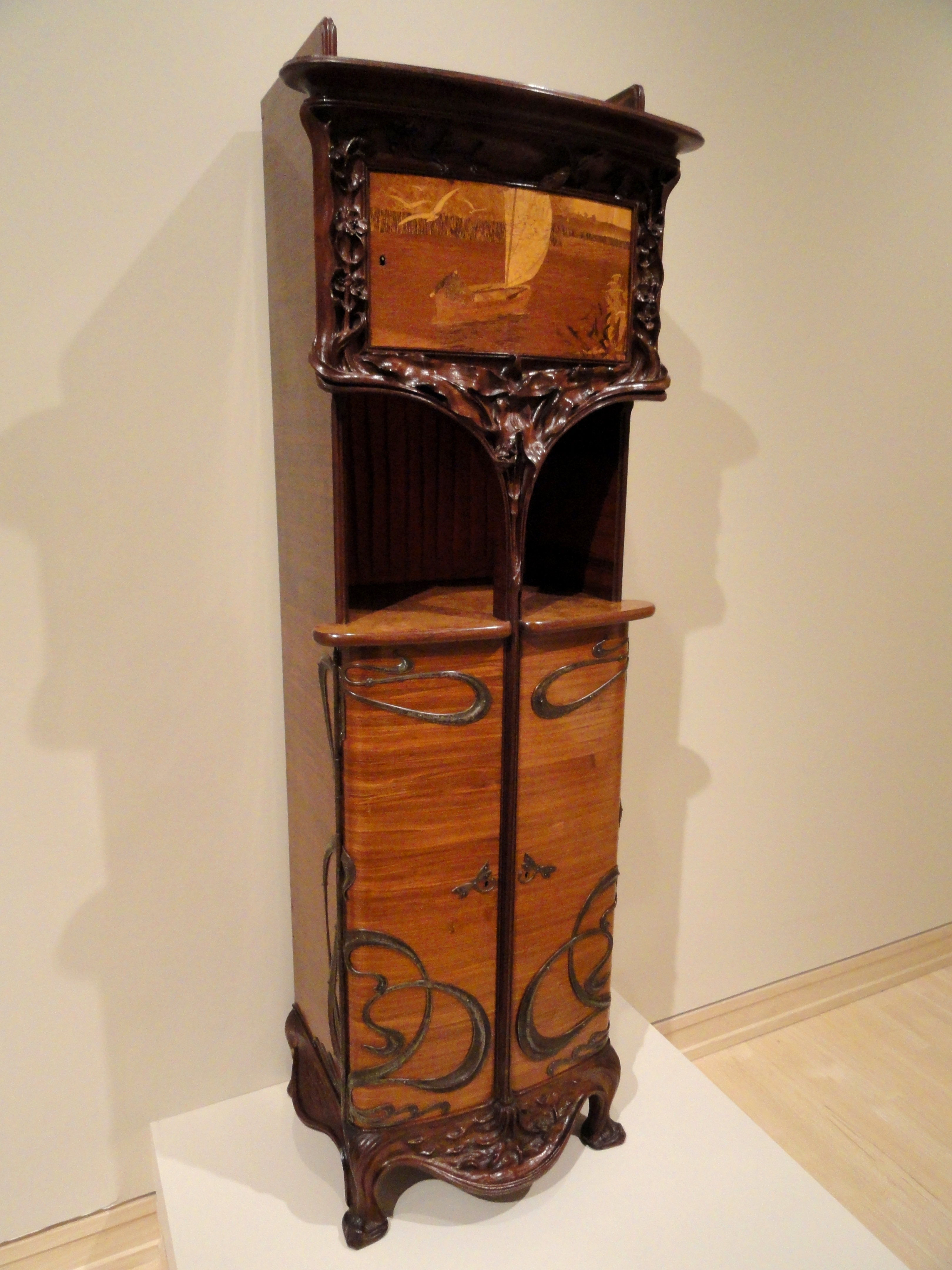 Cabinet, Louis Majorelle, circa 1900. Exhibit in the Indianapolis Museum of Art, Indianapolis, Indiana, USA.